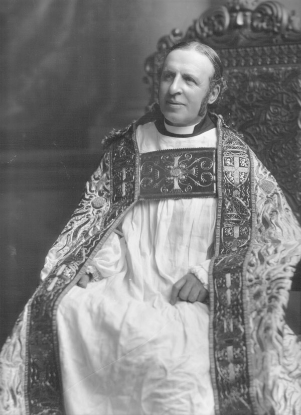 Handley Carr Glyn Moule (1841-1920) Bishop of Durham 1901-1920, photographed on 7 August 1902.